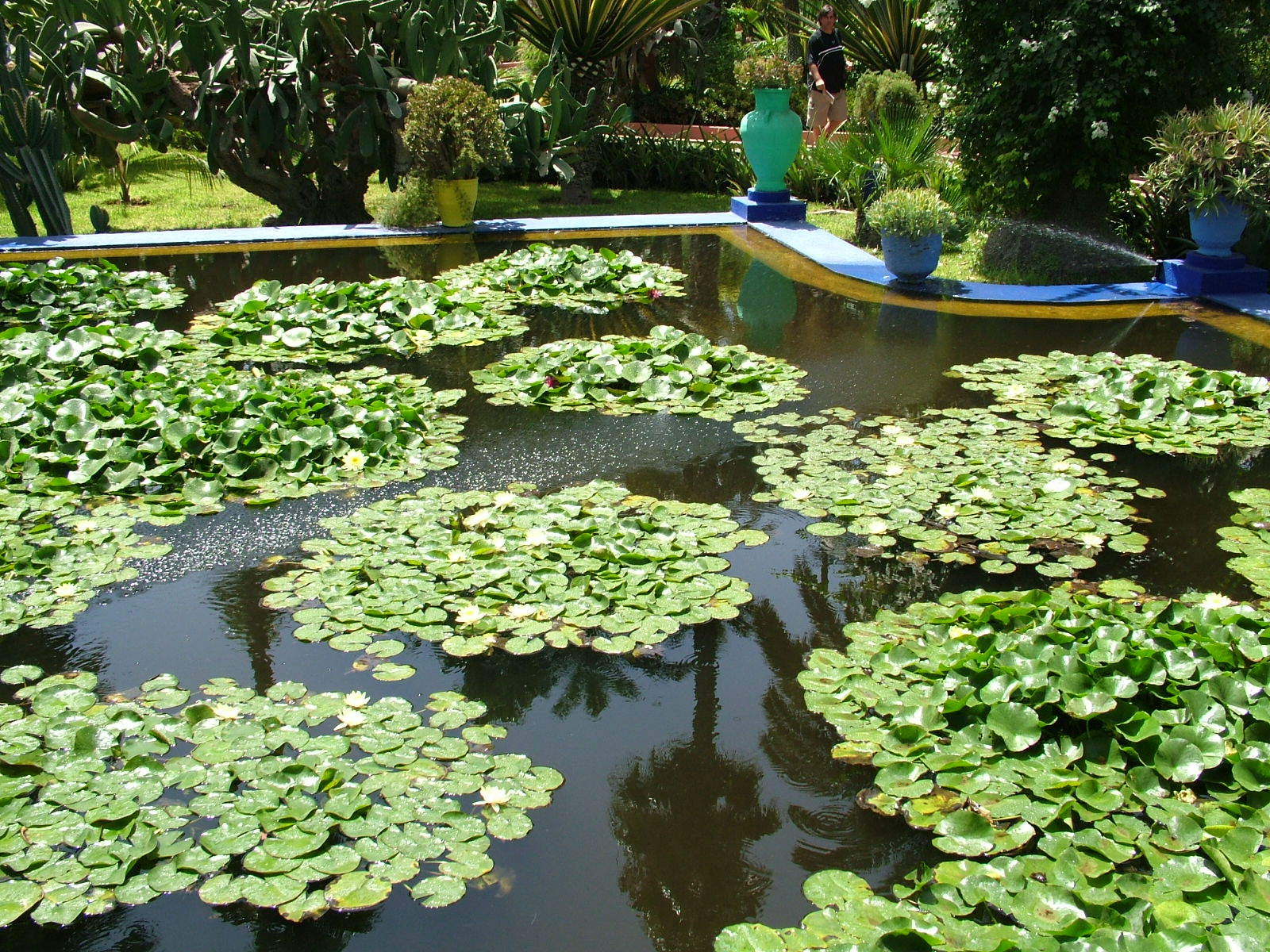 Majorelle Garden, Marrakech, Morocco